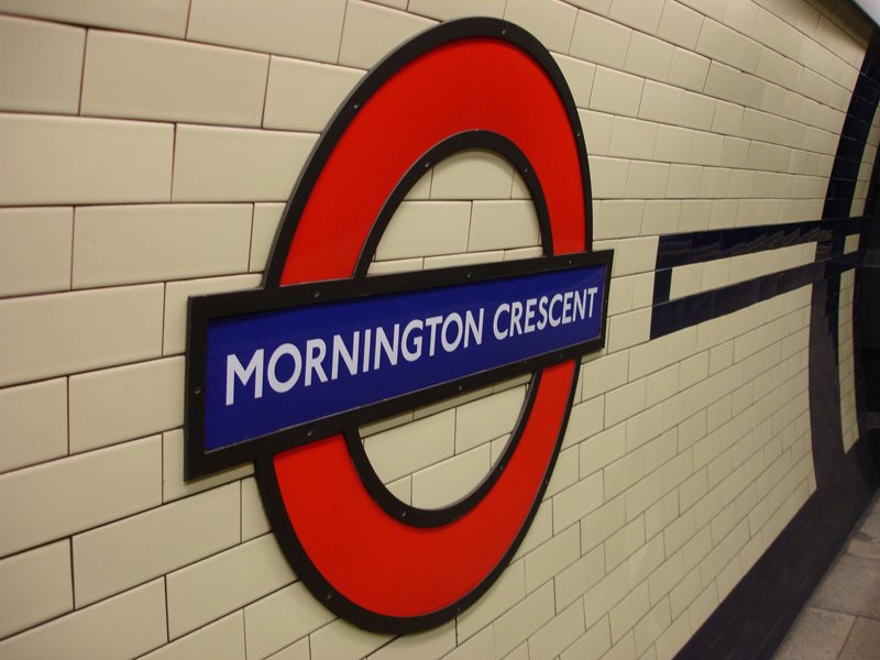 Enamel sign at Mornington Crescent tube station.